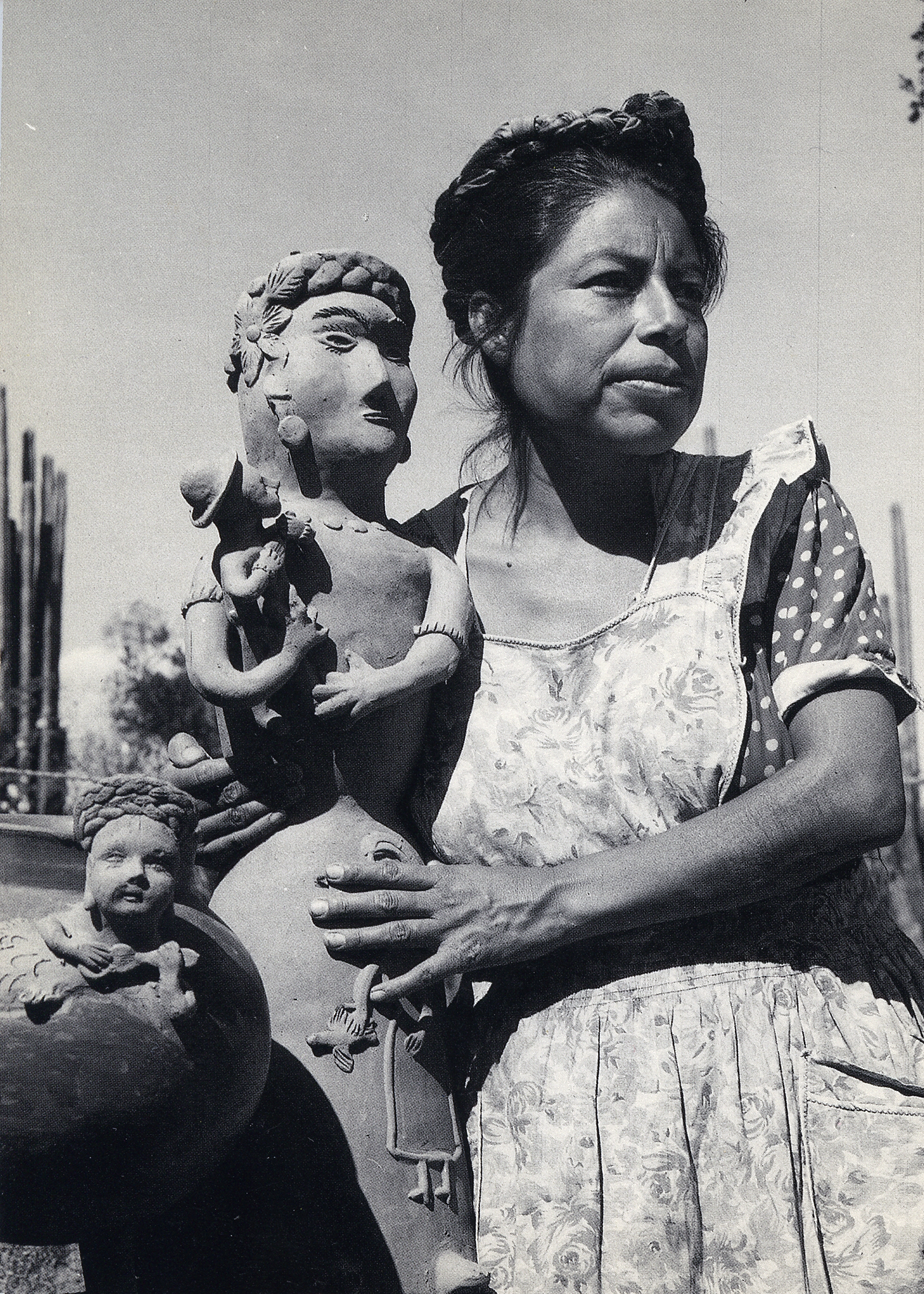 Teodora Blanco Nuñez of Santa Maria Atzompa, Oaxaca, Mexico